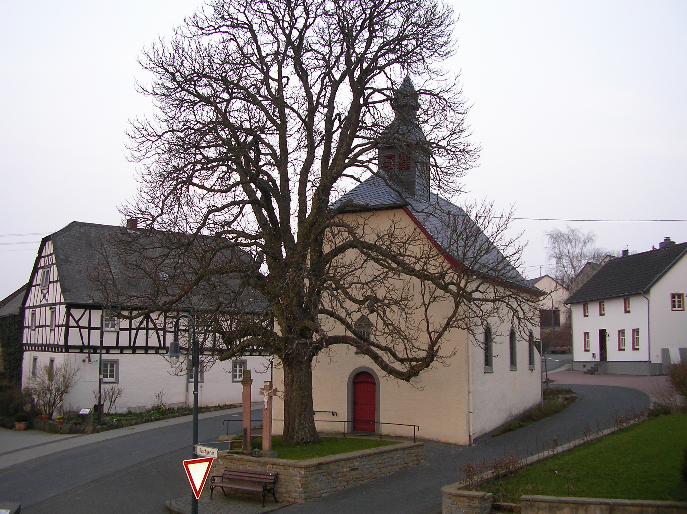 Chapel in Borler, Germany